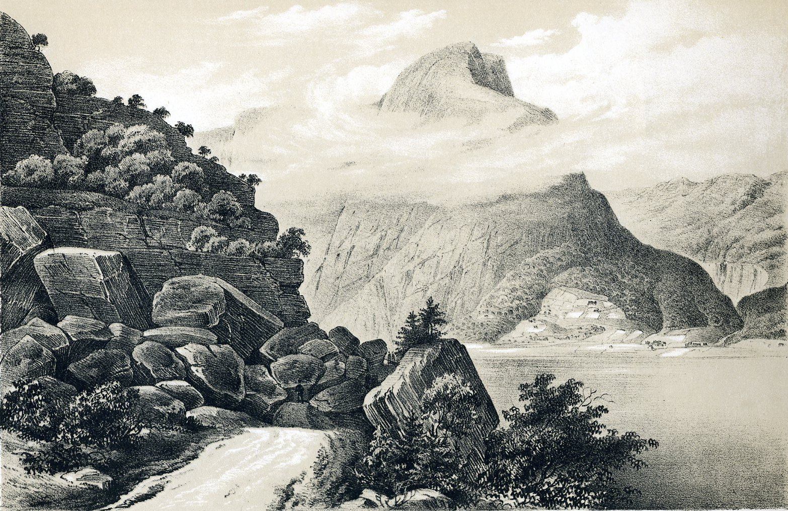 Pictures from the Work "Norge fremstillet i billeder" 1848 by Chr. Tønsberg. Sjudshorn (Skutshorn) and Kvamskleiva, Vang municipality in Valdres, Oppland county, Norway.